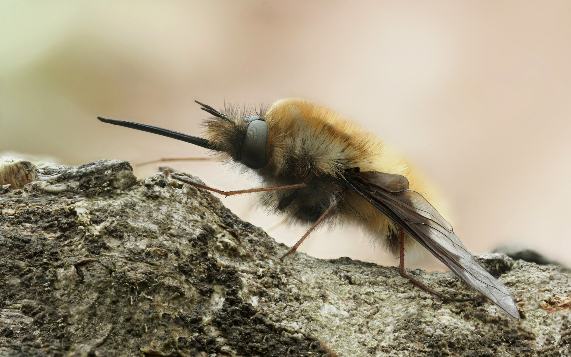 Bee-fly (Bombylius major) is a large genus of flies belonging to the family Bombyliidae (the bee-flies). The genus has a global distribution.